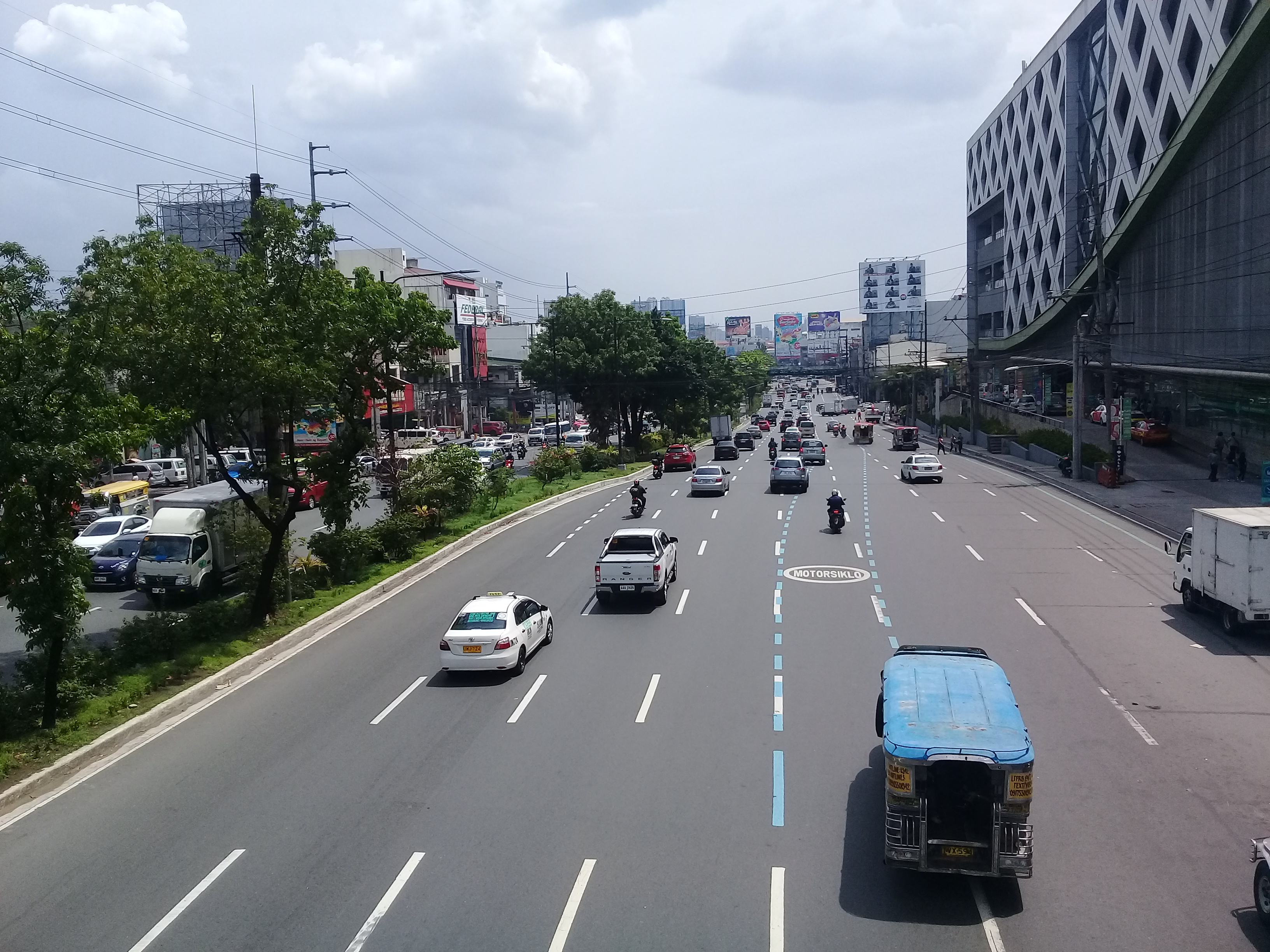 Quezon Avenue at Fishermall